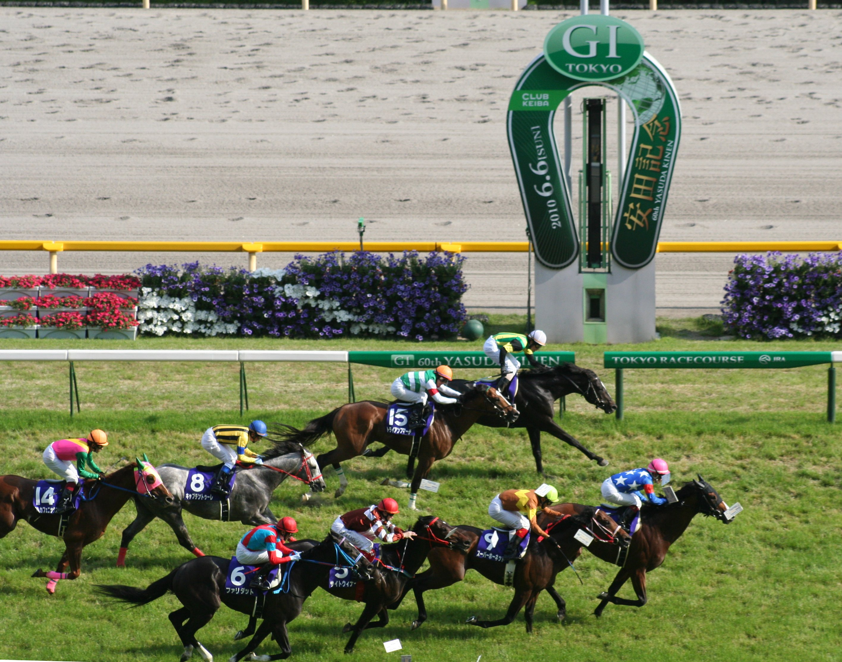 The 60th Yasuda Kinen